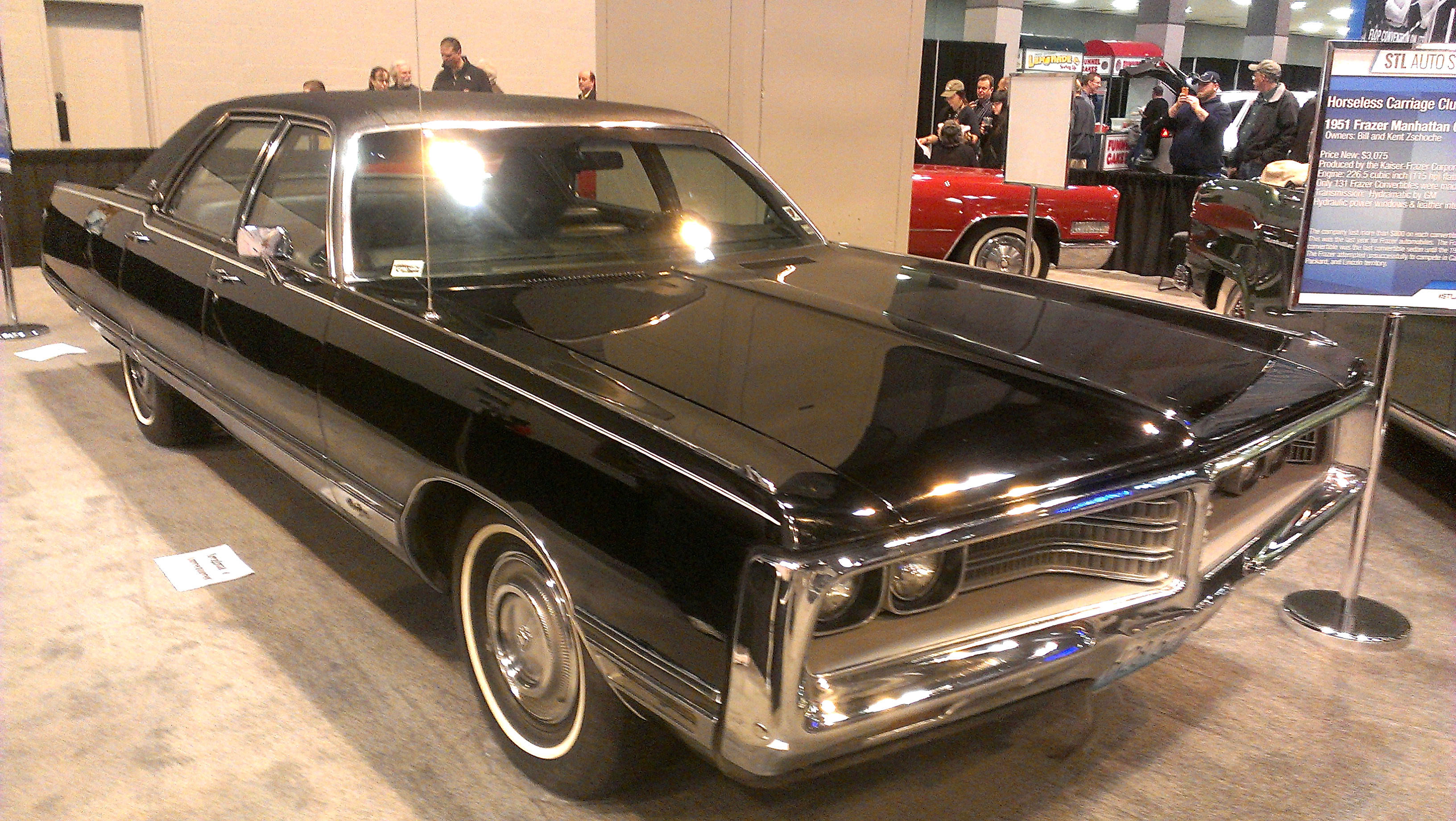 1972 Chrysler New Yorker Brougham 4-Door Sedan - front end